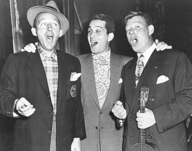 Publicity photo of Bing Crosby, Perry Como and Arthur Godfrey, who were guests on Bing Crosby's 24 May 1950 CBS radio program.